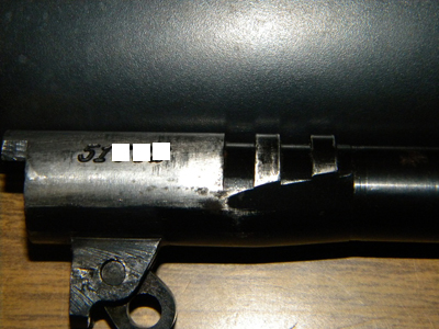 Disposition of the serial number on the barrel chamber of a FM refurbished at DGFM